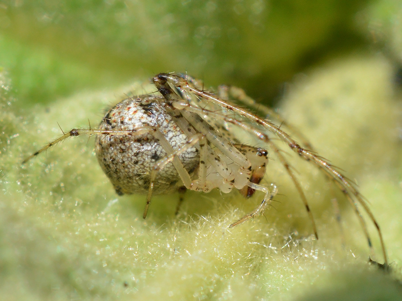 A female Mimetus laevigatus spider near Botevgrad, Bulgaria. Between the leaves, at the top of a mullein (Verbascum sp.) plant.